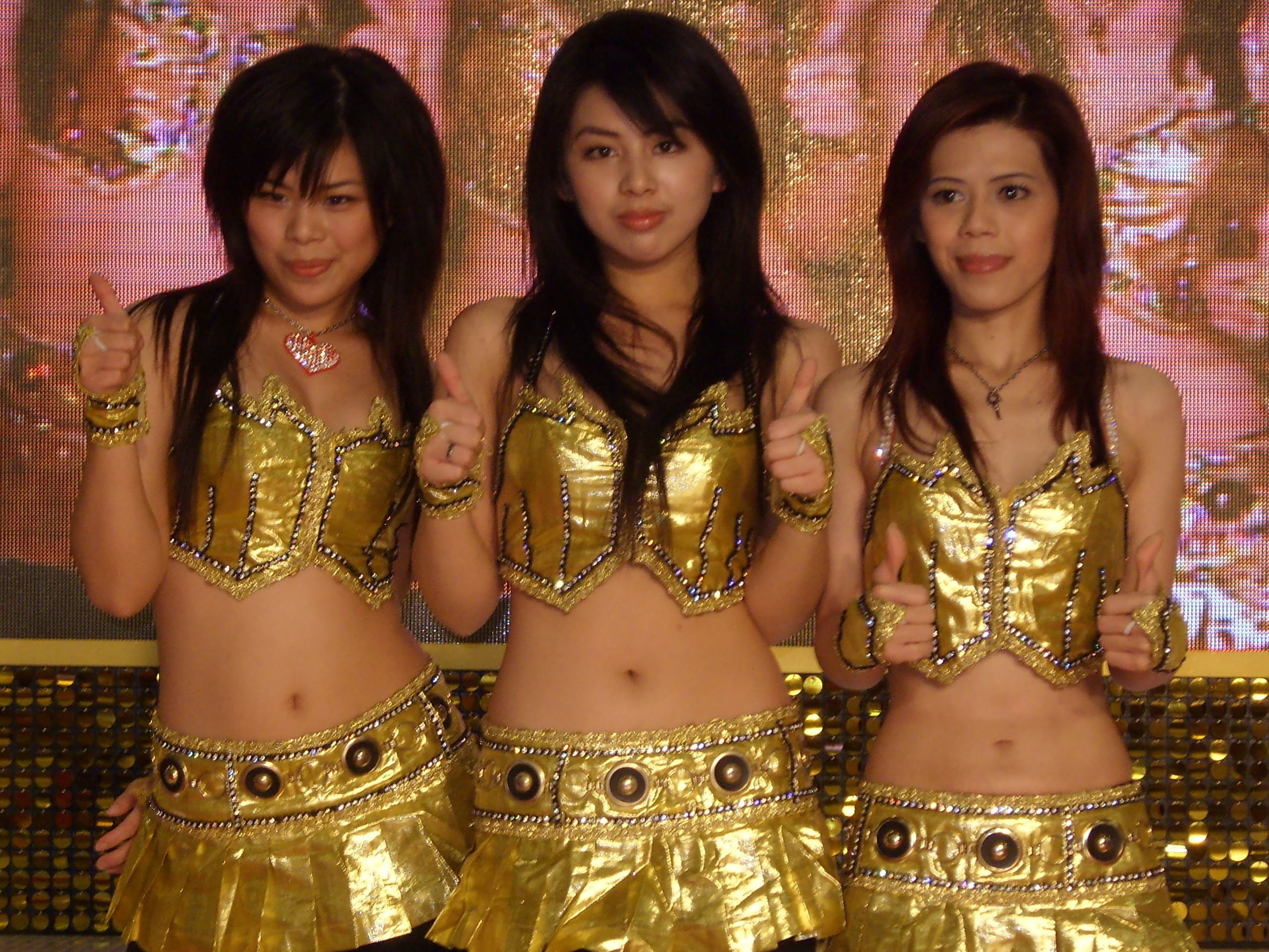 2008 Taipei Game Show: GameFlier Station special event - Shining 3 Girls.